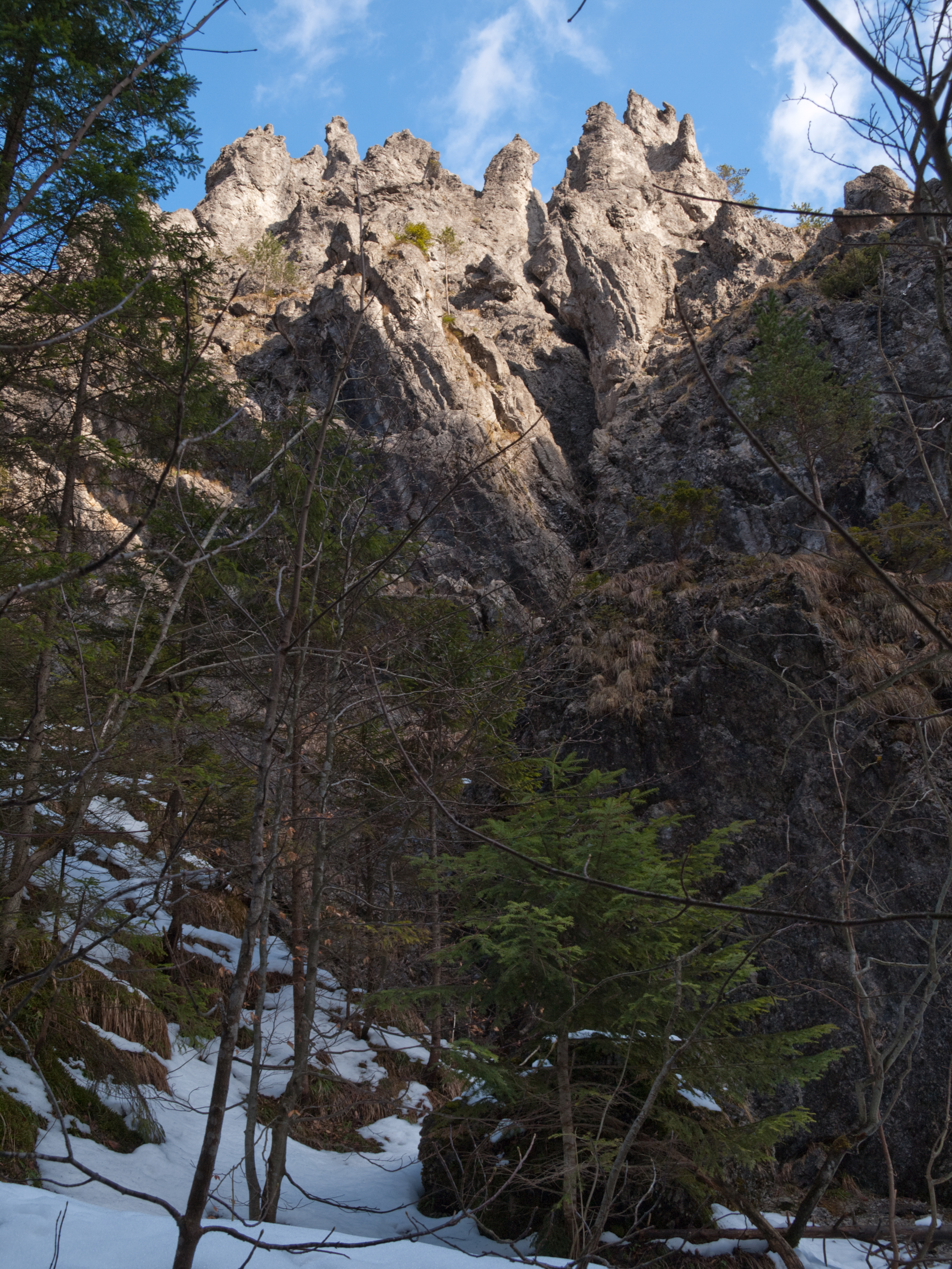 Niżnie Jasiowe Turnie – view from Dolina za Bramką.